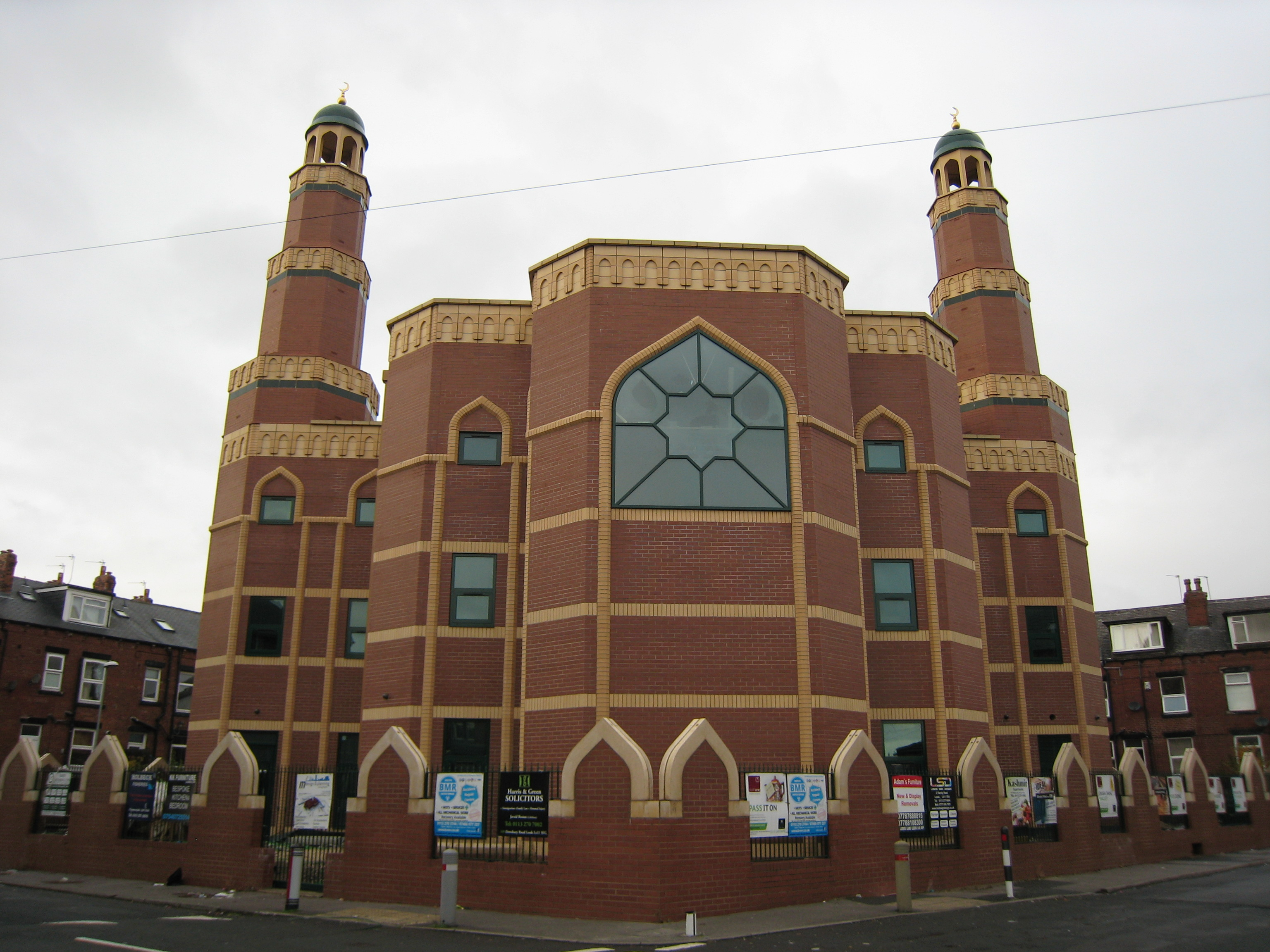 Masjid-e-Umar (mosque) on the corner of Stratford Street and Lodge Lane, Beeston, Leeds 11